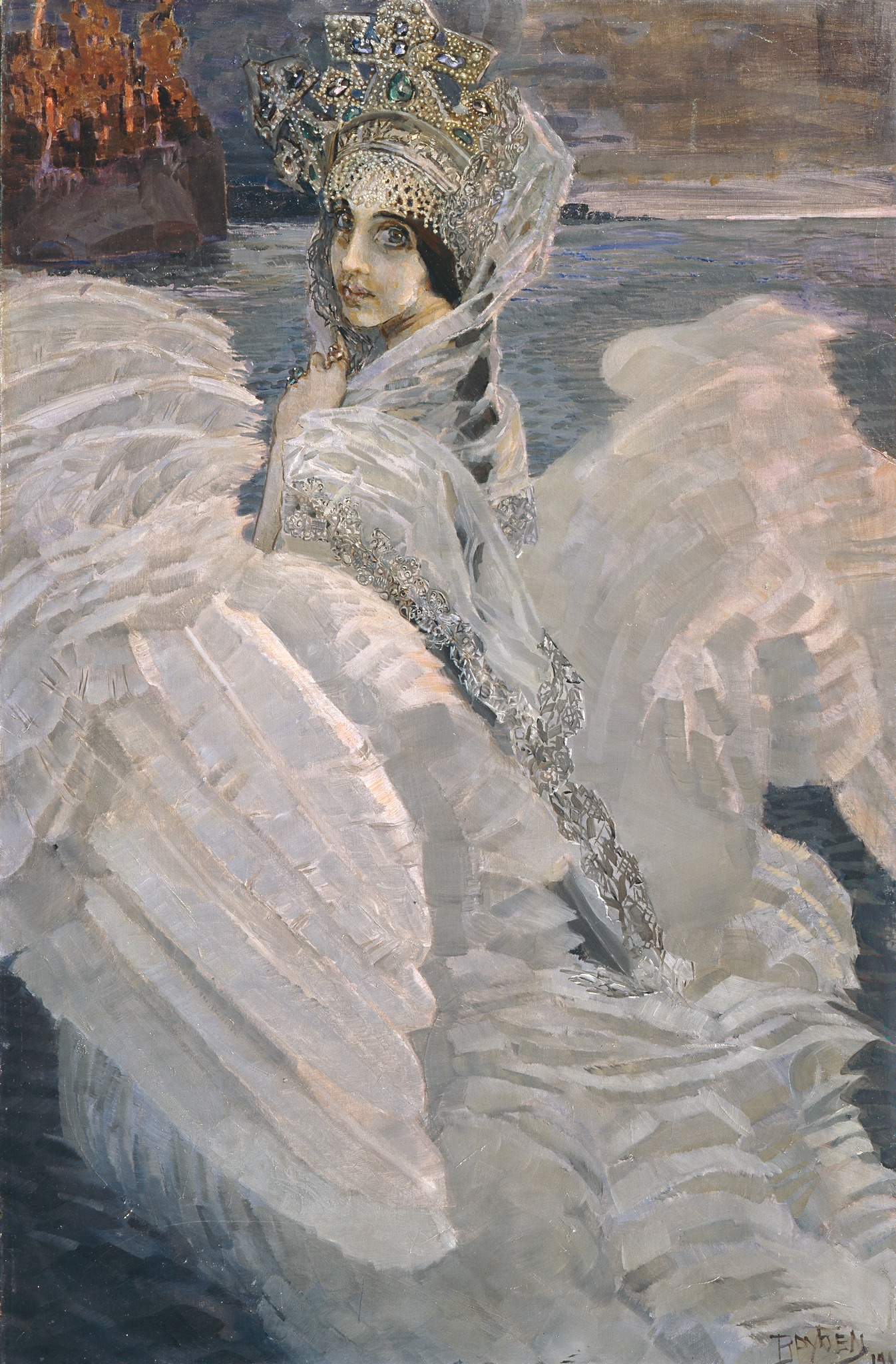 The Swan Princess by Mikhail Aleksandrovich Vrubel, based on the The Tale of Tsar Saltan opera of Rimsky-Korsakov (which was based on the fairytale of the same name by Pushkin). Vrubel designed the decor and costumes for this opera. The part of the Swan Princess was performed by his wife, N. Zabela-Vrubel.